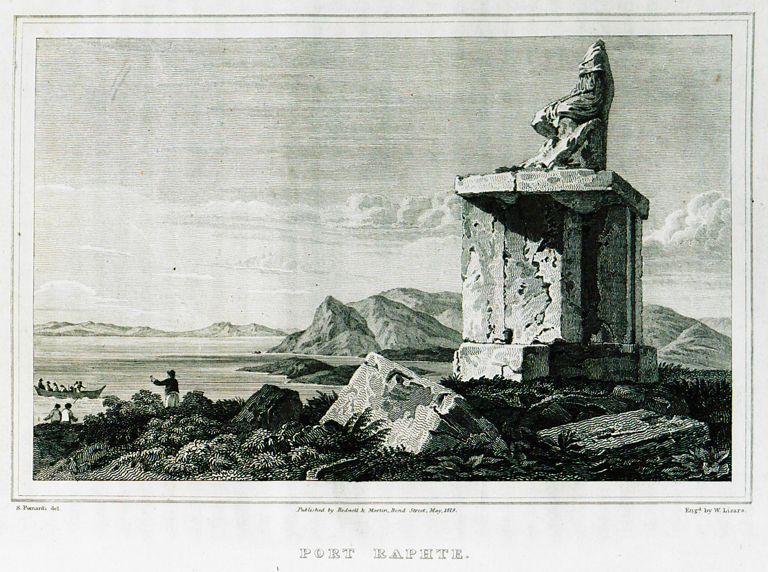 Edward Dodwell. A Classical and Topographical Tour through Greece, during the Years 1801, 1805, and 1806, vol. ΙΙ, London, Rodwell and Martin, 1819.